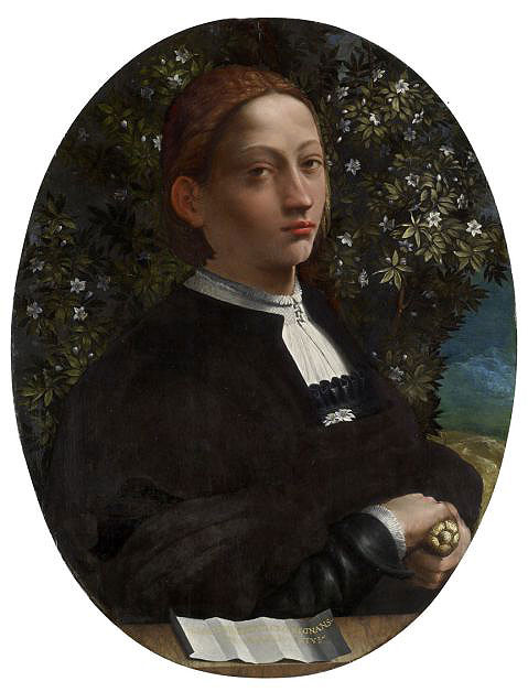 Possibly Portrait of Lucrezia Borgia